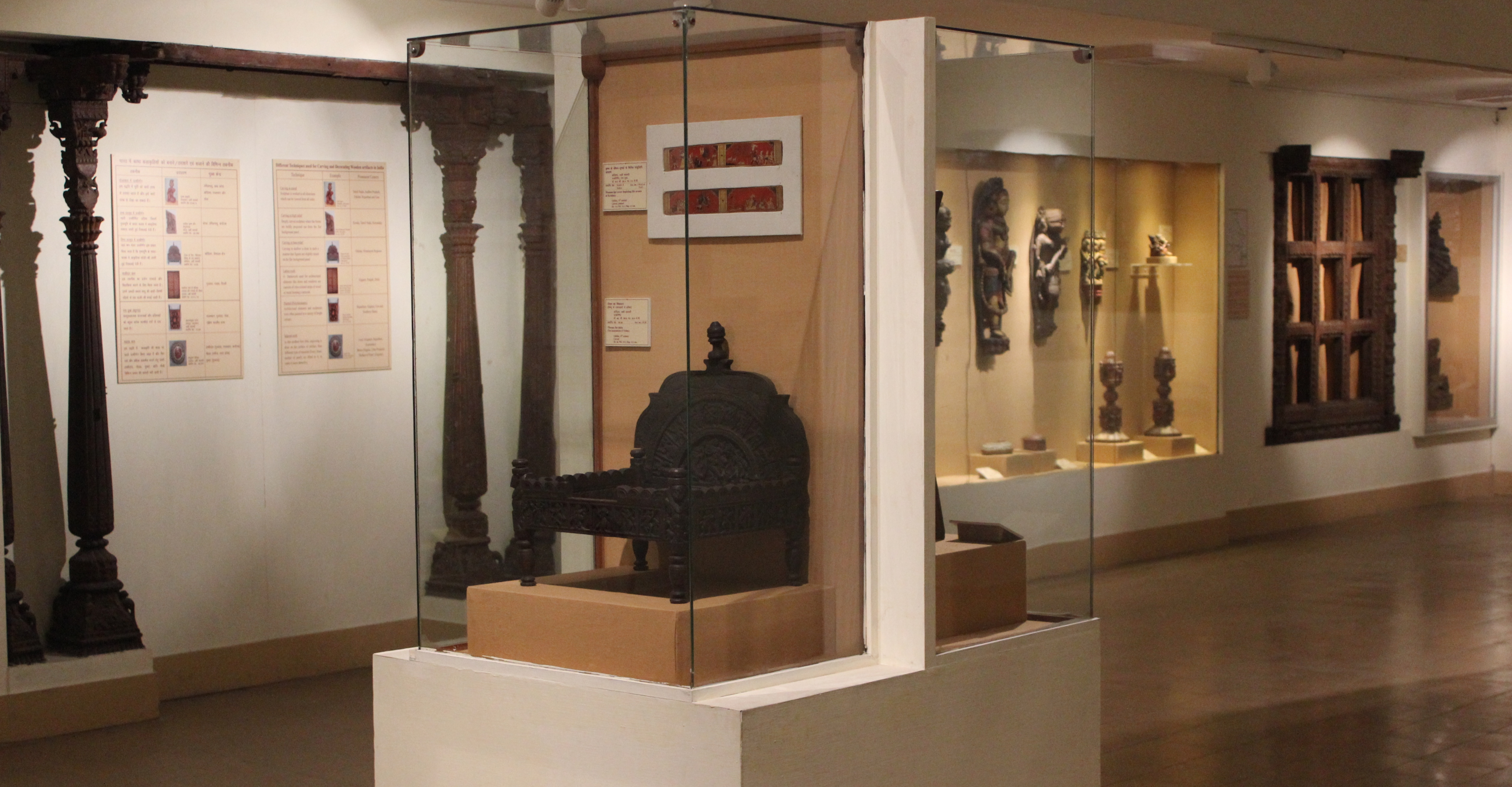 a view of the wood carving gallery